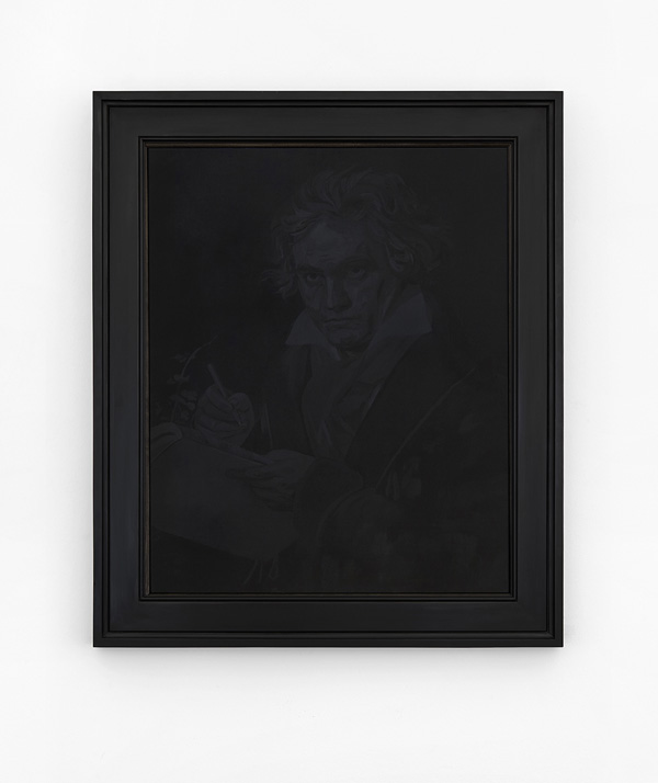 In order to Beethoven-House Bonn of a mentoring-project in 2014/15. From the five pictures aubout Joseph Carl Stielers most famous portrait of Beethoven "Credo II" was chosen for the Beethoven-House.